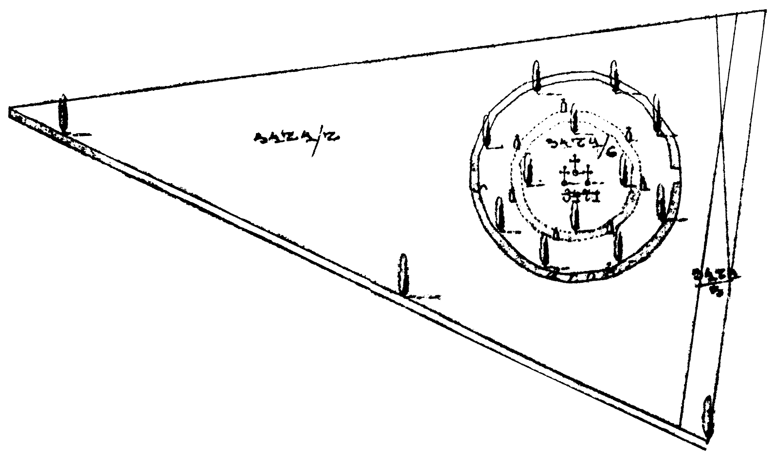 Plan of circular sacral monument (Catholic Stations of the Cross) in Senta, Serbia, built 1849, and officially demolished 1883.